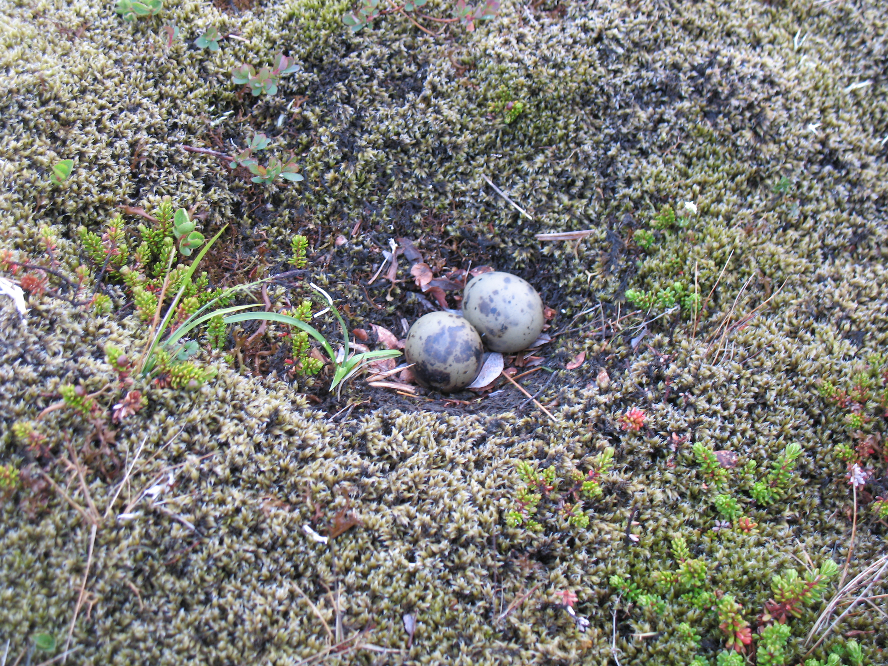 Arctic Tern (Sterna paradisaea) nest with two eggs, photographed in Thingvellir National Park, Iceland.